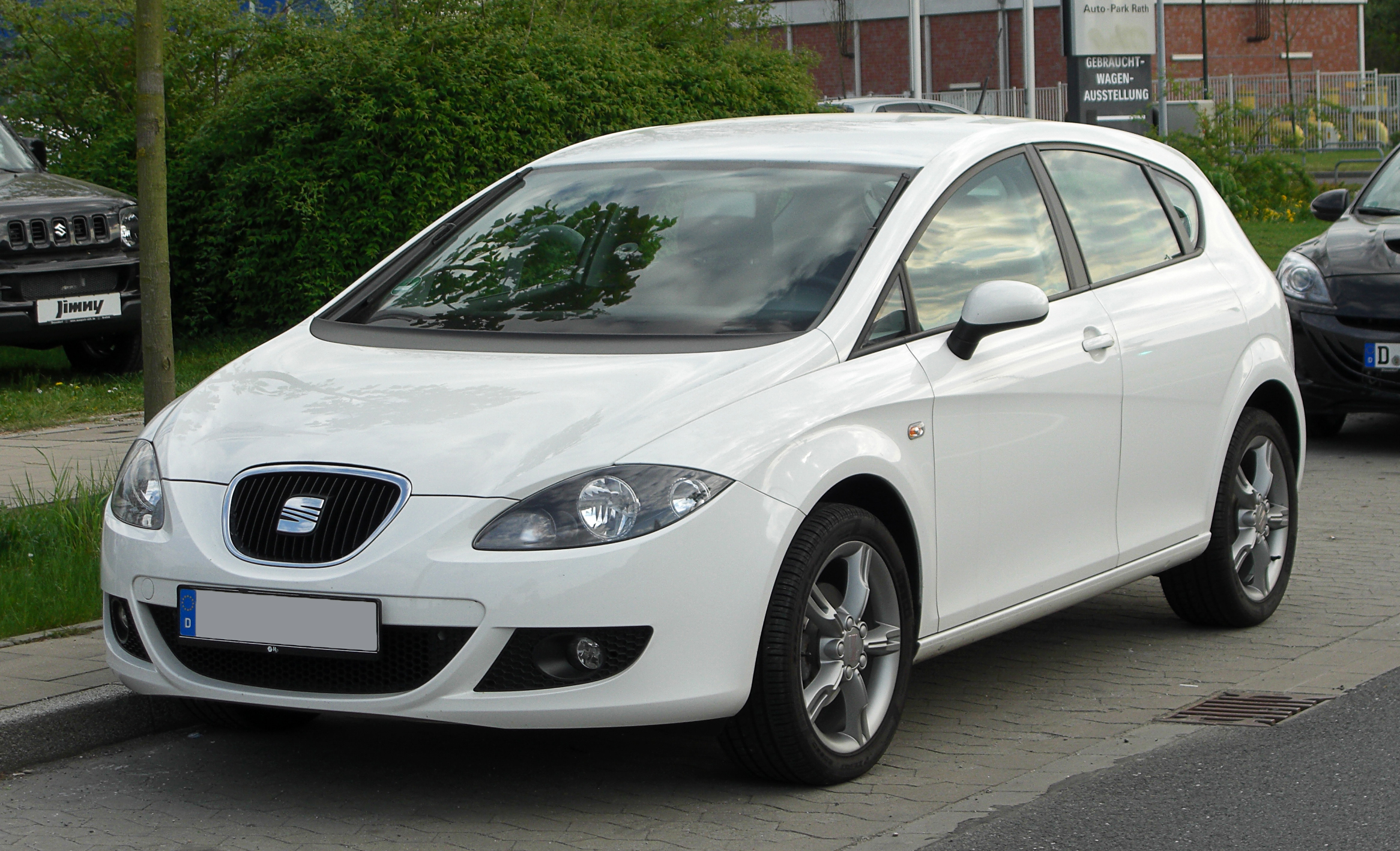 Seat Leon (1P)